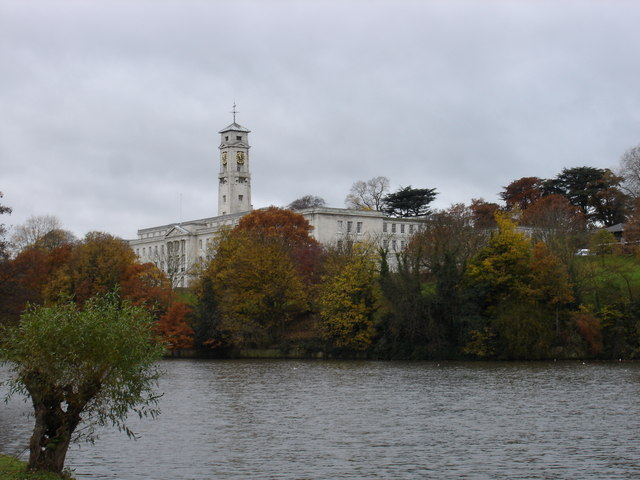 Trent Building, Nottingham University